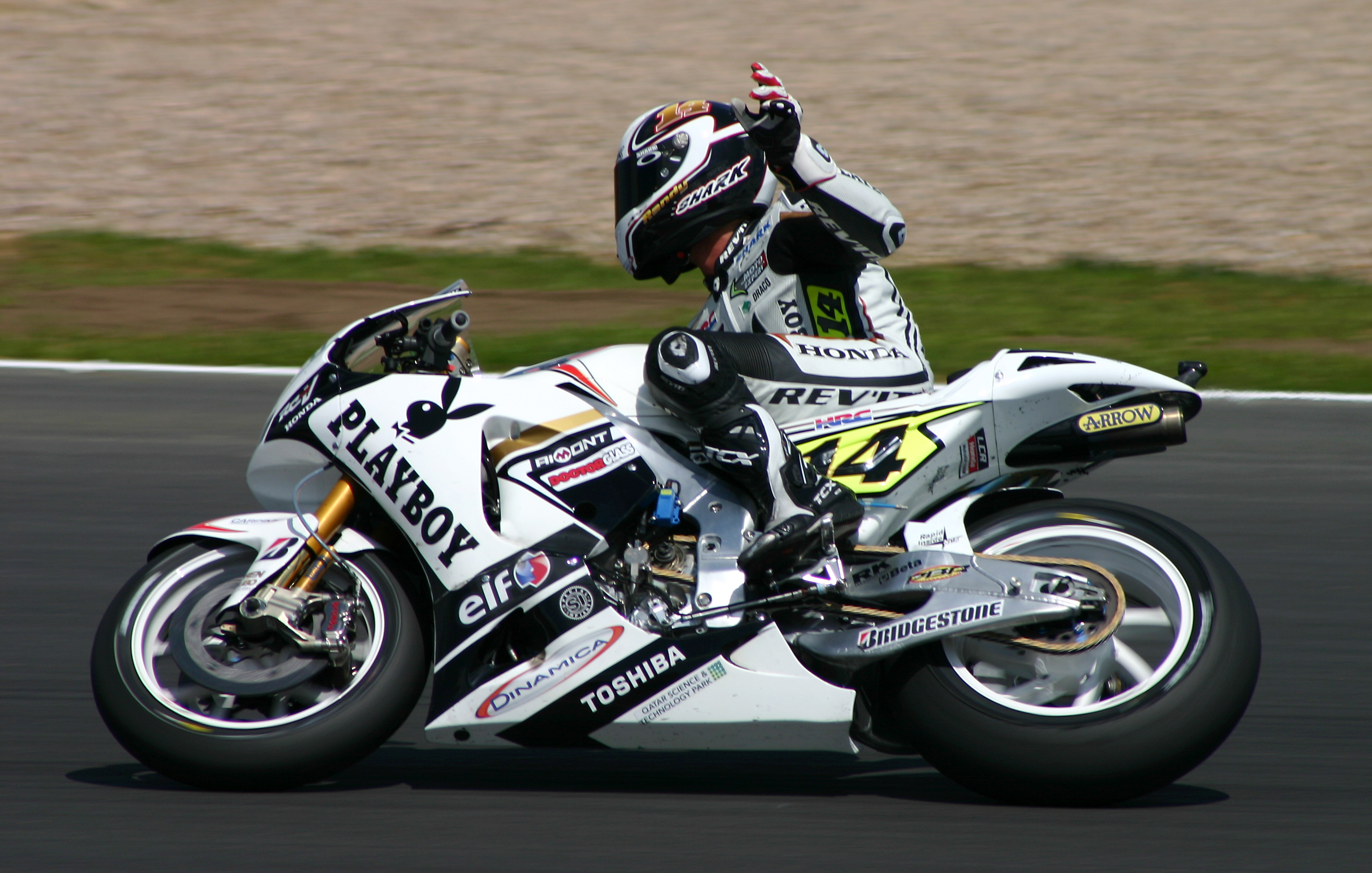 Randy de Puniet 2010 Silverstone